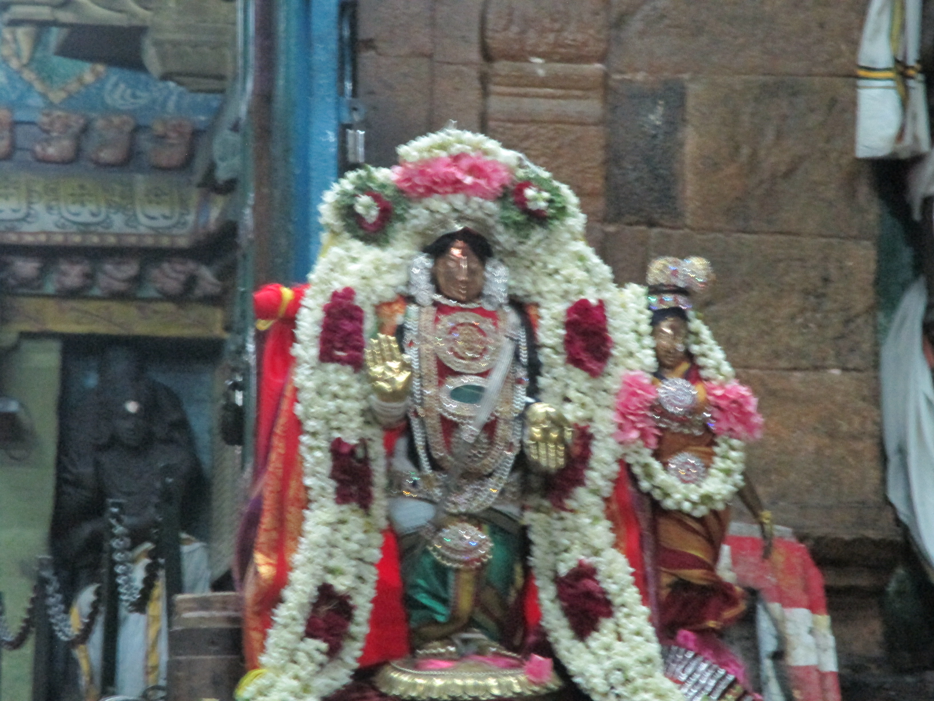 Kayarohanaswami Temple, Nagapattinam